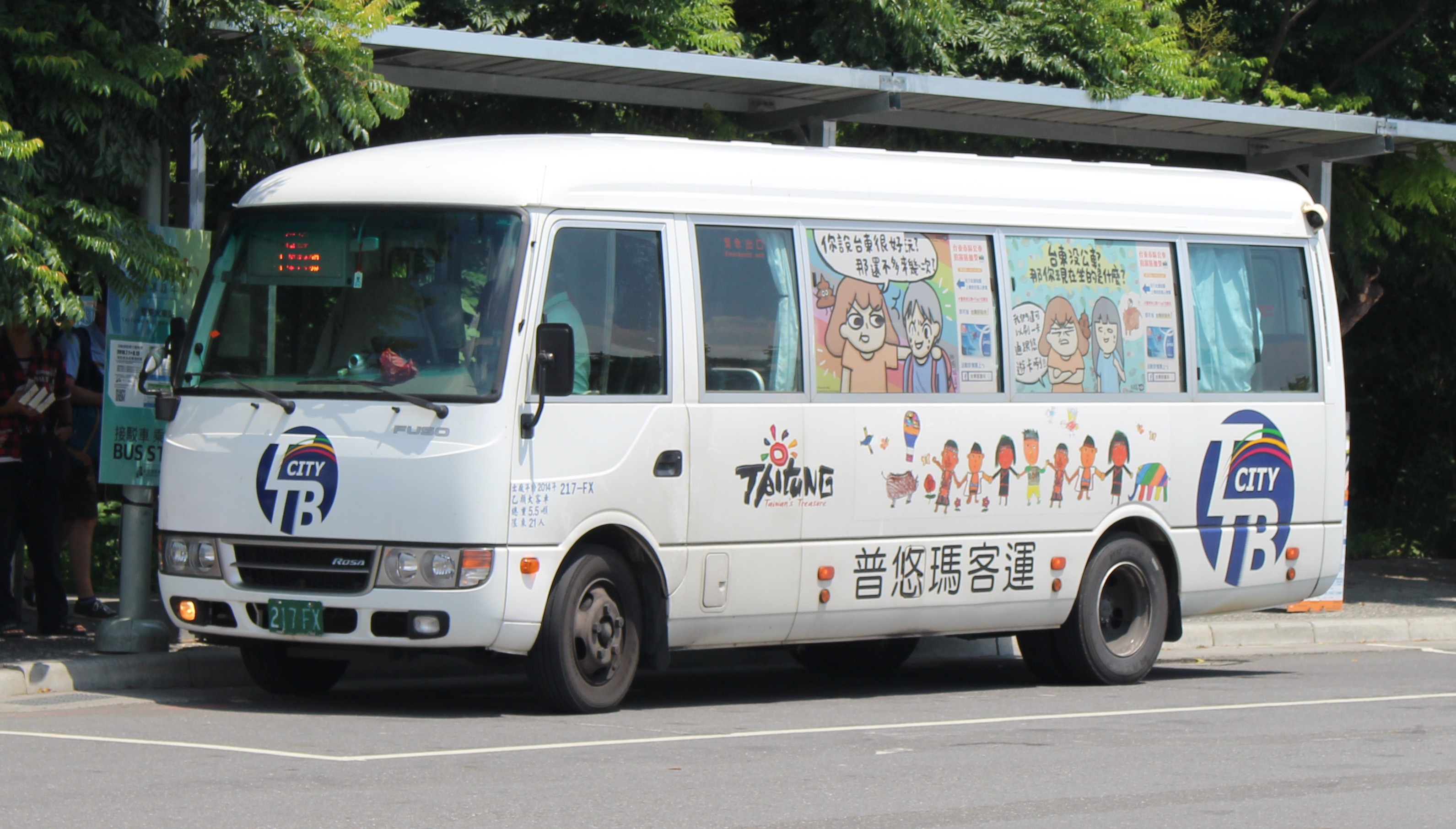 Puyuma Bus in Taitung City